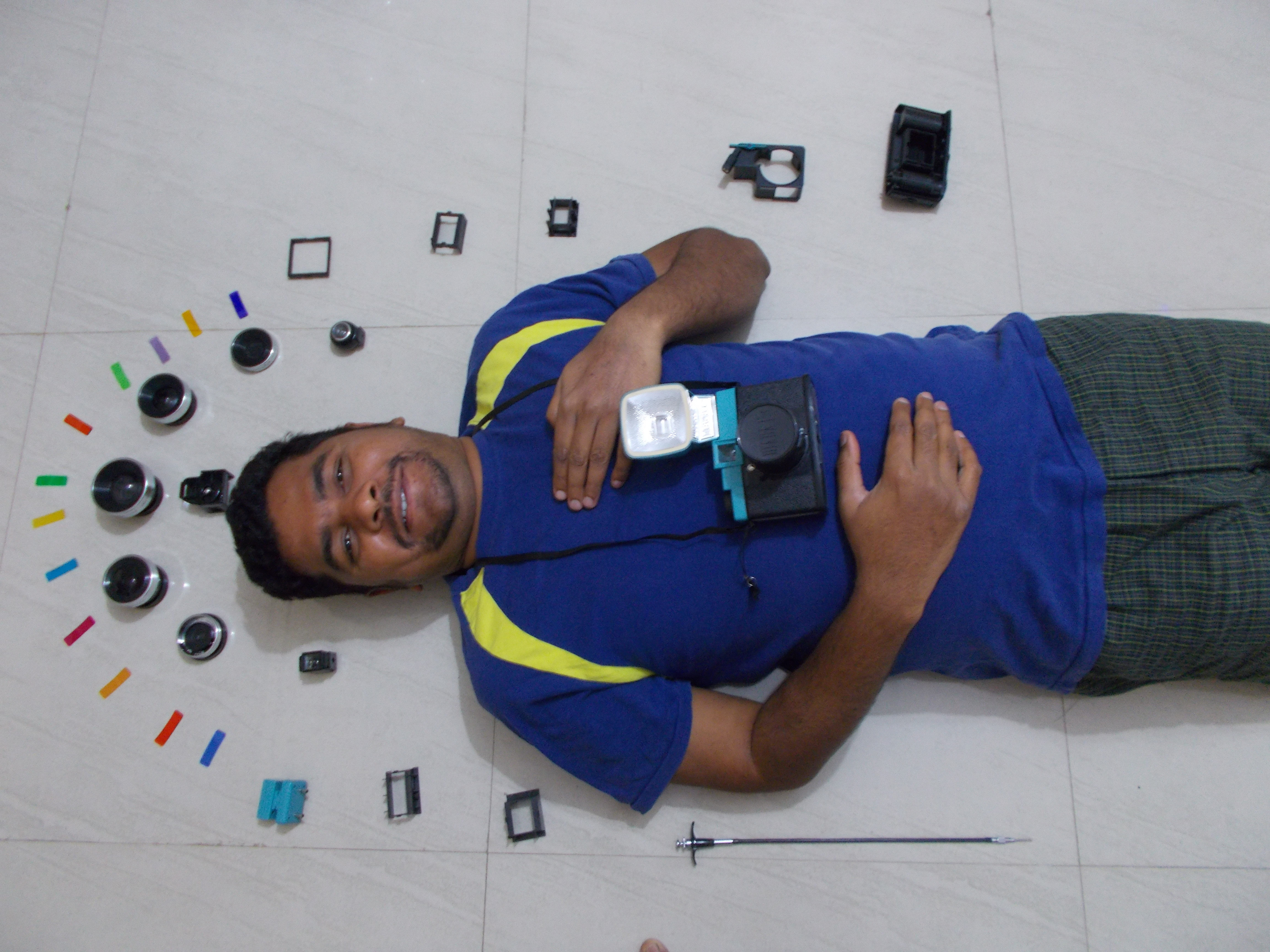 A lomographer with a Diana F+ camera and its accessories. The color strips are the gel filters. Below them are the fish eye, wide angle, close up and telephoto leneses. In the picture are also shown telephoto viewfinder, fish eye view finder, hotshoe, various frames with which 35 mm and a 120 mm film can be used, cable collar and release, a detachable flash and a back for 35 mm. Apart from these, instant back is also available for the camera which is not shown in the picture. This photgraph is not taken with a Diana F+ camera. This is only to demonstrate the various accessories available for Diana F+ camera.